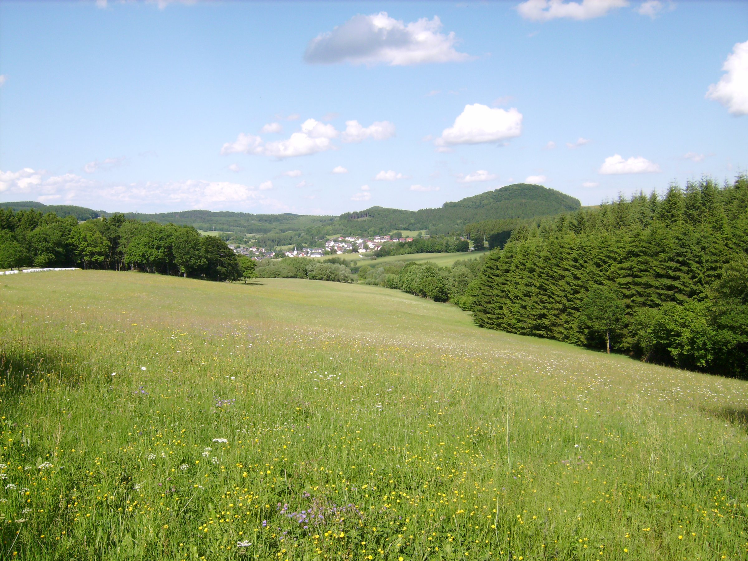 Nerother Kopf in summer, sight from the west („Forst Salm“)